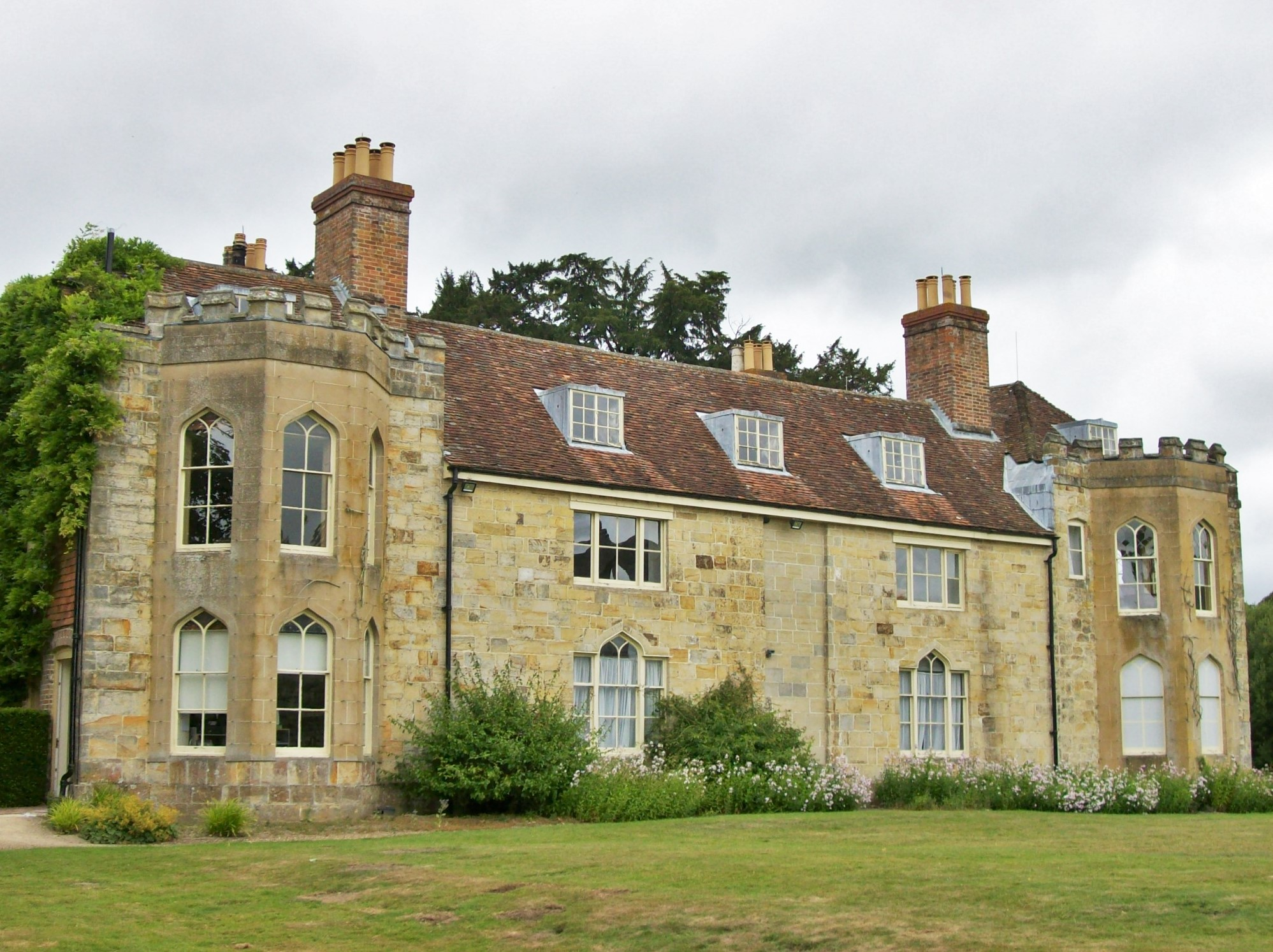 Bayham Abbey, Dower House